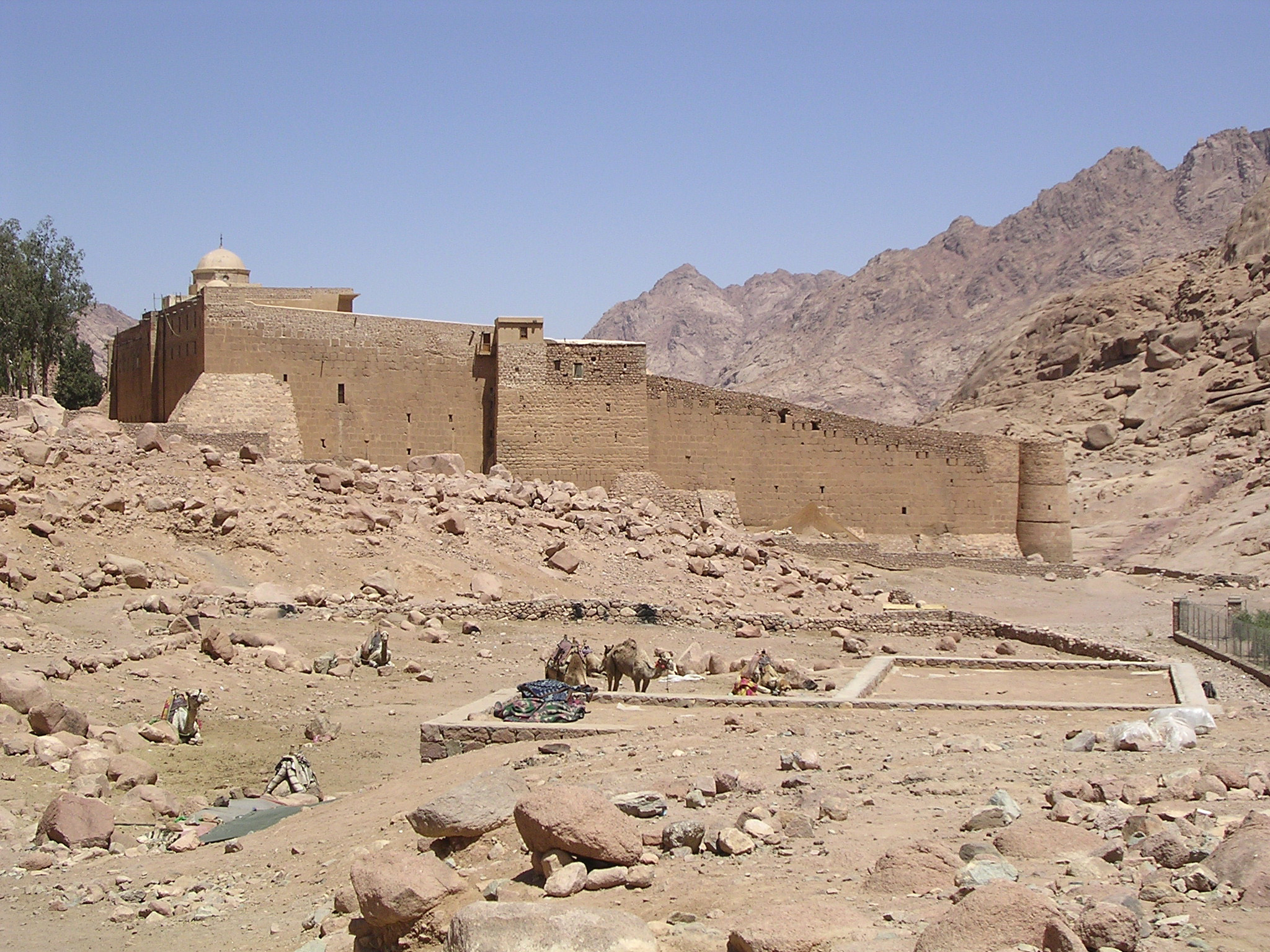 St. Catherine's monastery near Mount Sinai, Egypt.